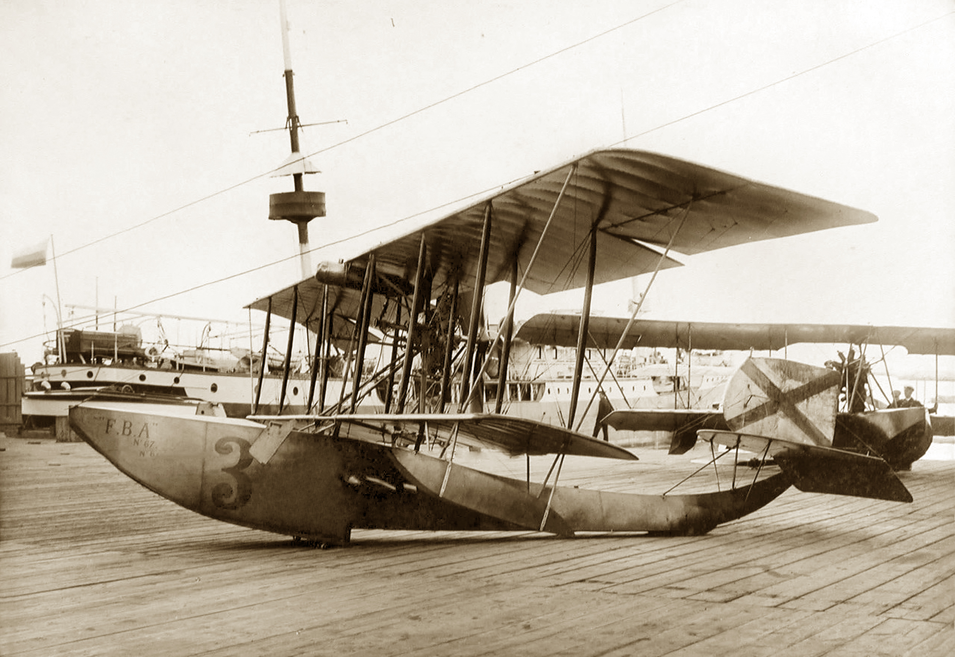 Naval Aviation Officer's School in Baku.